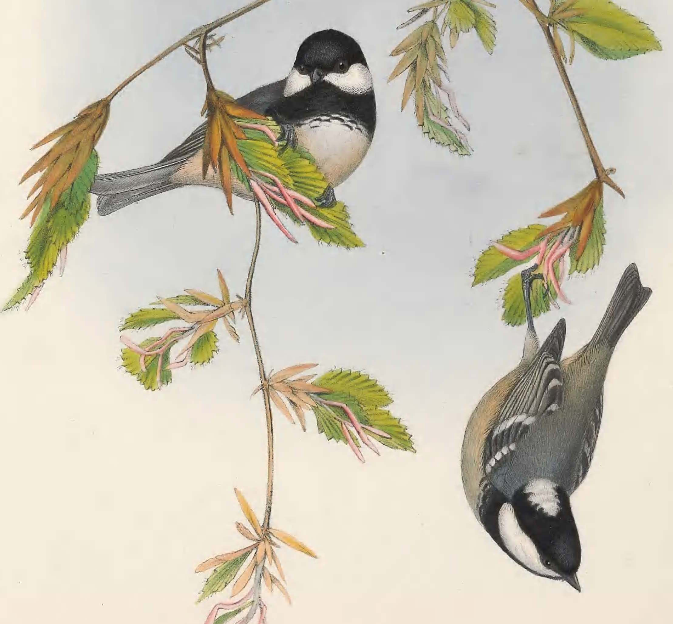 Parus ater. John Gould